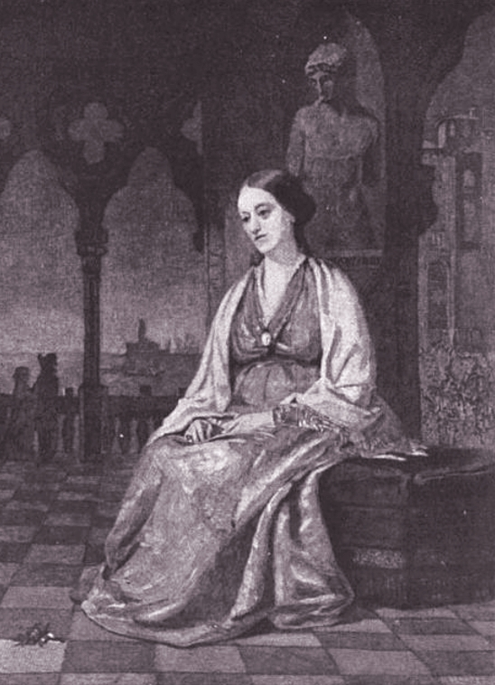 Painting of American writer/feminist Margaret Fuller. According to caption, from Century Magazine, April 1893. As published in Margaret Fuller: A Psychological Biography by Katharine Susan Anthony - Harcourt, Brace and Howe, 1920. Adjusted for brightness/contrast.